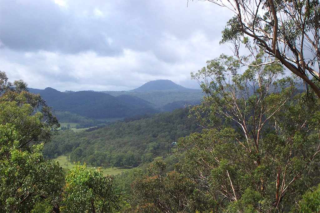 Mount Warrawolong, NSW Australia, seen from a ridge-top on Wattagan Creek Road, looking eastwards.